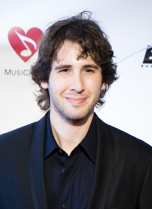 Josh Groban at the Grammy Auction in (February 2009).